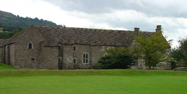 Tretower Court. A 15th century manor house, rebuilt close to Tretower Castle by Sir Roger Vaughan. A manor house has occupied this site since the 14th century. Under the care of Cadw. This is the view of the west side of the manor house.